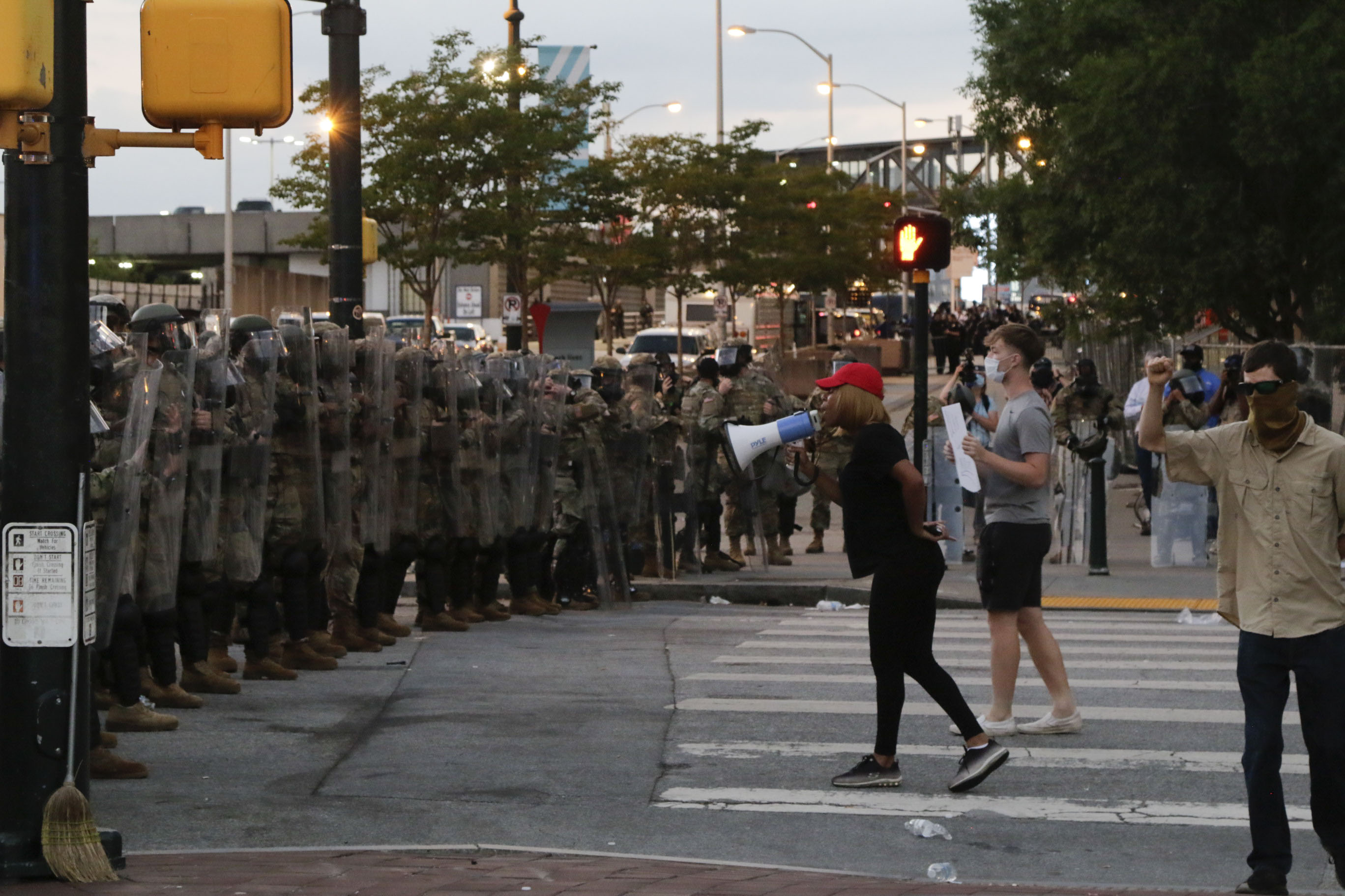 The 201st Regional Support Group Chaplain prayed over the Georgia Guardsmen after the protest demonstrations in Atlanta on May 31st 2020. (U.S. Army National Guard Photo by Sgt. Jeron Walker)